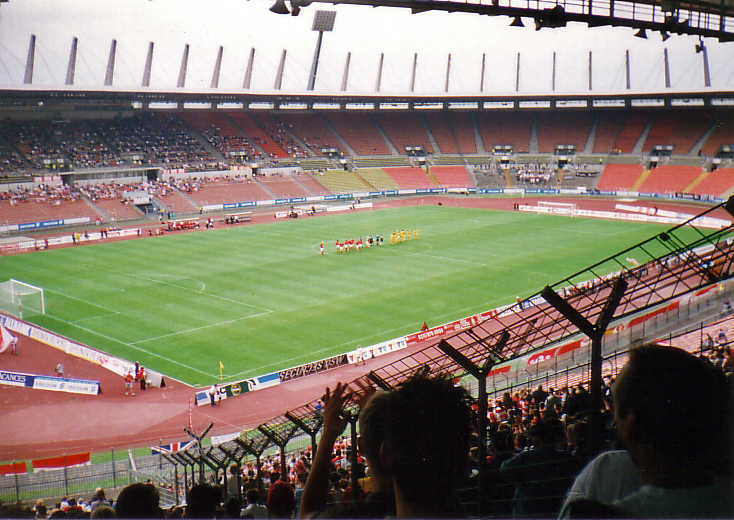 The old Rheinstadium, inside view